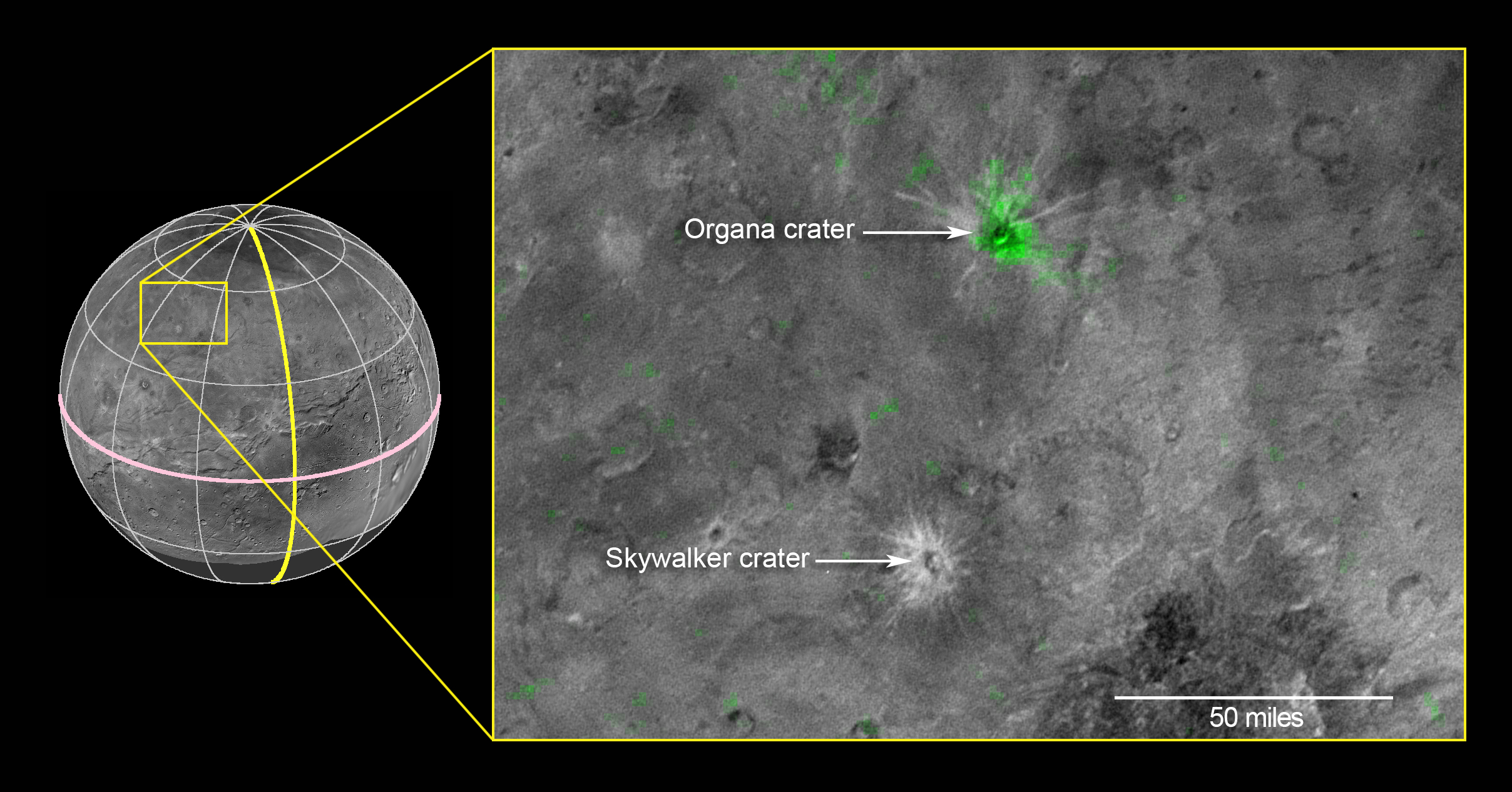 This composite image is based on observations from the New Horizons Ralph/LEISA instrument made at 10:25 UT (6:25 a.m. EDT) on July 14, 2015, when New Horizons was 50,000 miles (81,000 kilometers) from Charon. The spatial resolution is 3 miles (5 kilometers) per pixel. The LEISA data were downlinked Oct. 1-4, 2015, and processed into a map of Charon's 2.2 micron ammonia-ice absorption band. Long Range Reconnaissance Imager (LORRI) panchromatic images used as the background in this composite were taken about 8:33 UT (4:33 a.m. EDT) July 14 at a resolution of 0.6 miles (0.9 kilometers) per pixel and downlinked Oct. 5-6. The ammonia absorption map from LEISA is shown in green on the LORRI image. The region covered by the yellow box is 174 miles across (280 kilometers).